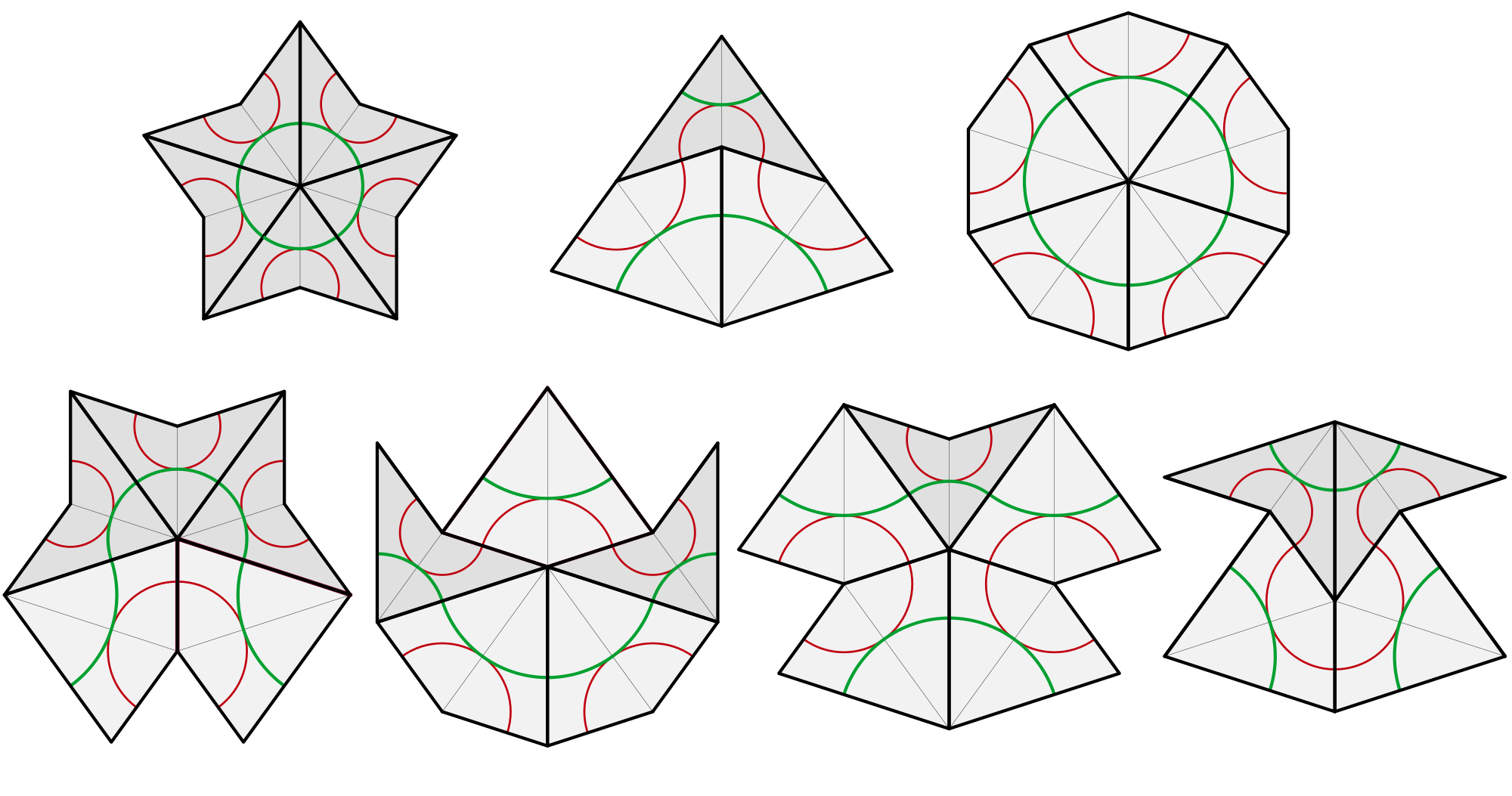 The seven possible vertex figures in a Penrose tiling by kites and darts. In Conway's terminology these are, from left to right, "Star", "Ace" and "Sun" (top row) and "King", "Jack", "Queen" and "Deuce" (bottom row).